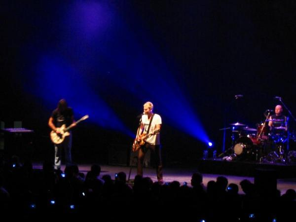 Lifehouse performing live at Araneta Coliseum, Quezon City, Philippines on July 26, 2008. From left: Ben Carey (Touring Guitarist), Jason Wade, Rick Woolstenhulme Jr. and Bryce Soderberg (Not in picture) Tagalog: Live concert ng Lifehouse sa Araneta Coliseum, Quezon City, Philippines noong July 26, 2008.